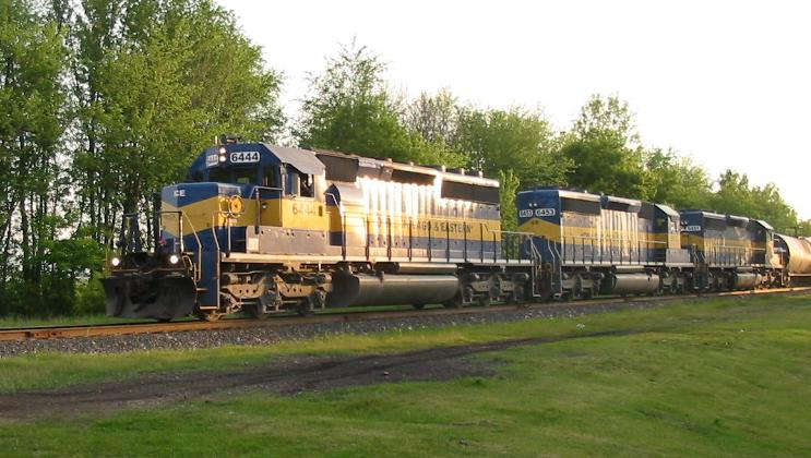 An eastbound Iowa train passing Fairdale, on May 29, 2005. Photo by Sean Lamb (User:Slambo)